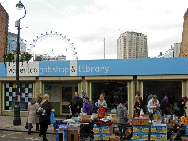 Lower Marsh, Waterloo The Waterloo area is a dense urban mixture of transport hubs, residential districts, corporate offices and tourist attractions. In the foreground here, hard by Waterloo Station, the stalls of the Lower Marsh street market operate outside the Lambeth Borough's lending library. In the background are the London Eye and the Shell Building.